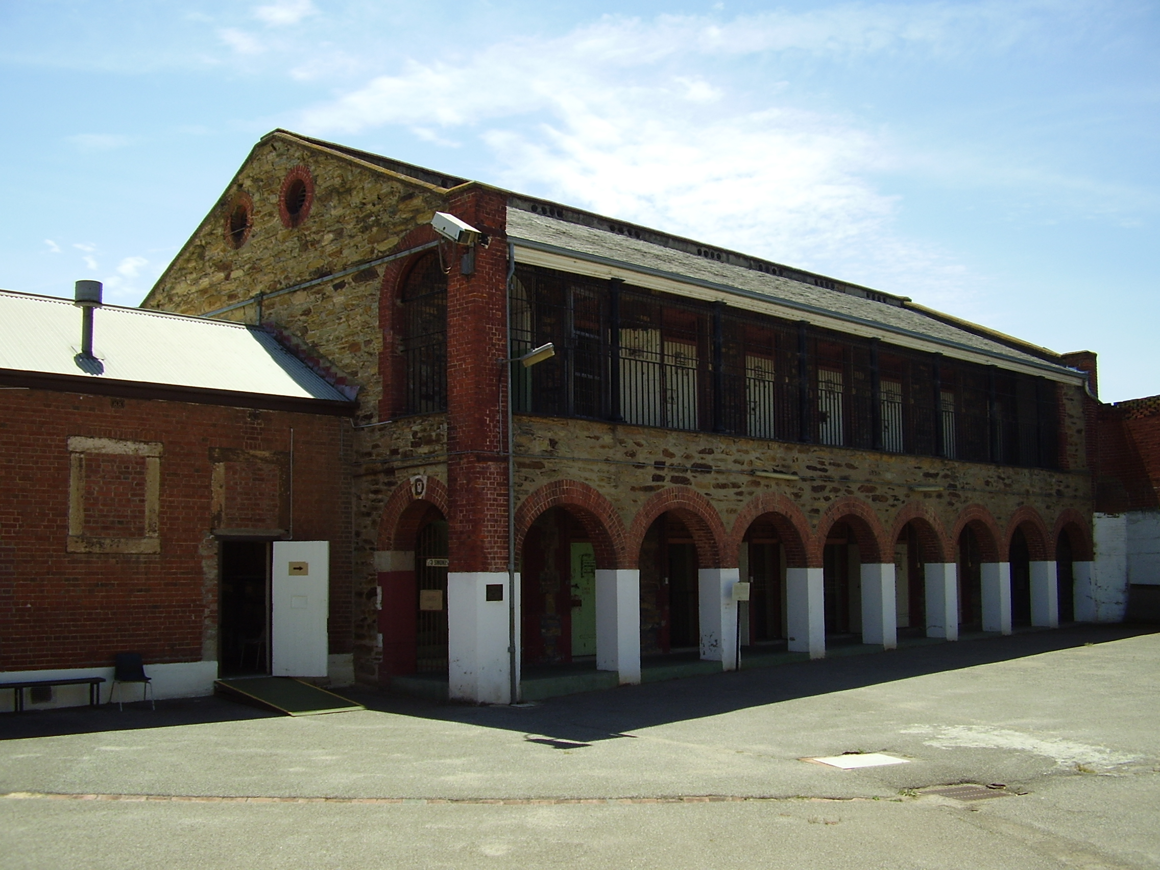 One of the cell blocks at Adelaide Gaol, Adelaide, South Australia